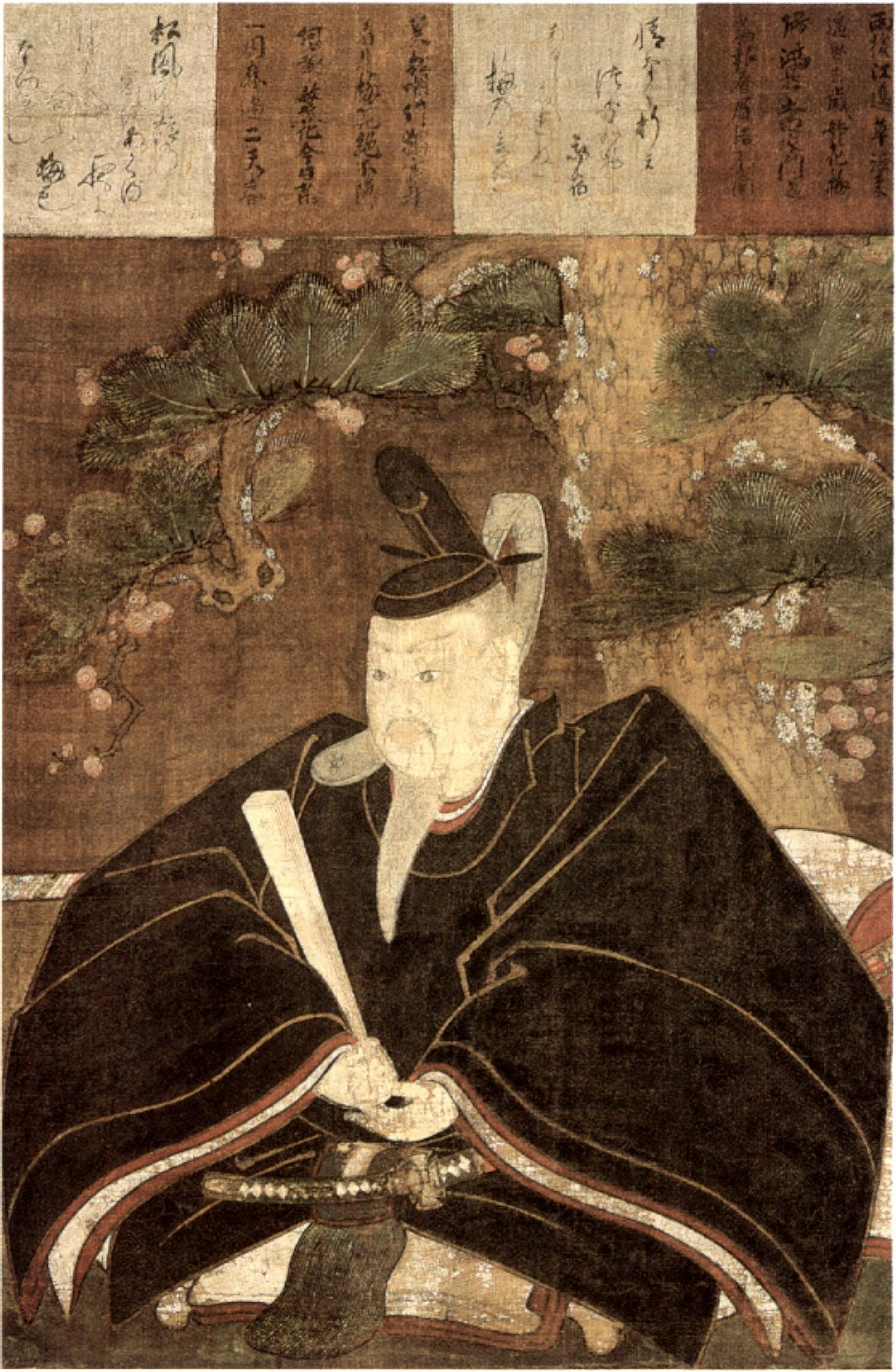 Portrait of Sugawara Michizane, Japanese. Muromachi period, 15th century, ink and color on silk, Honolulu Museum of Art accession 150.1